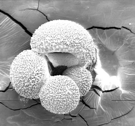 Globigerina bulloides, scanning electron micrograph